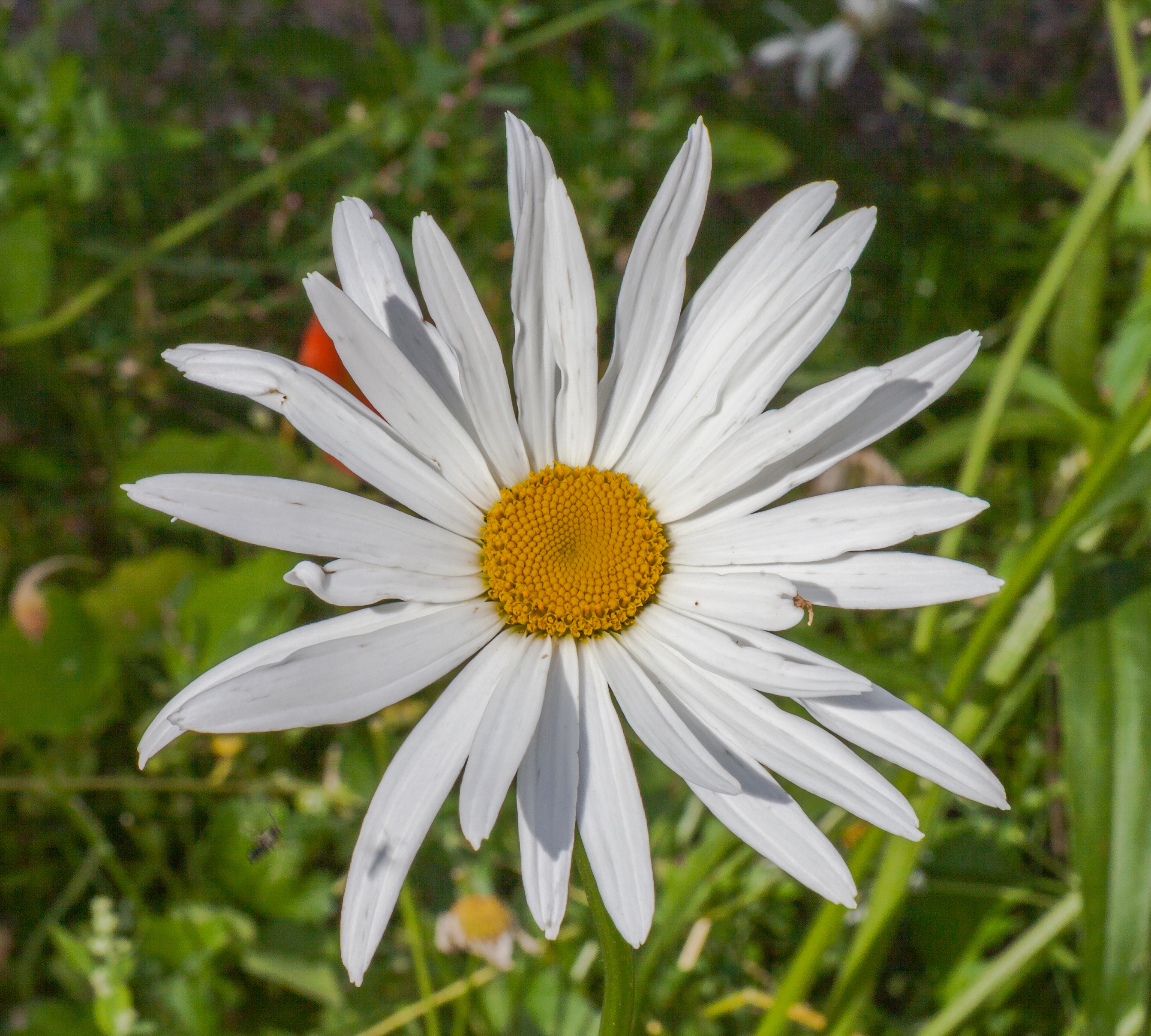 Oxeye daisy (Leucanthemum vulgare), center of Tallinn, Estonia